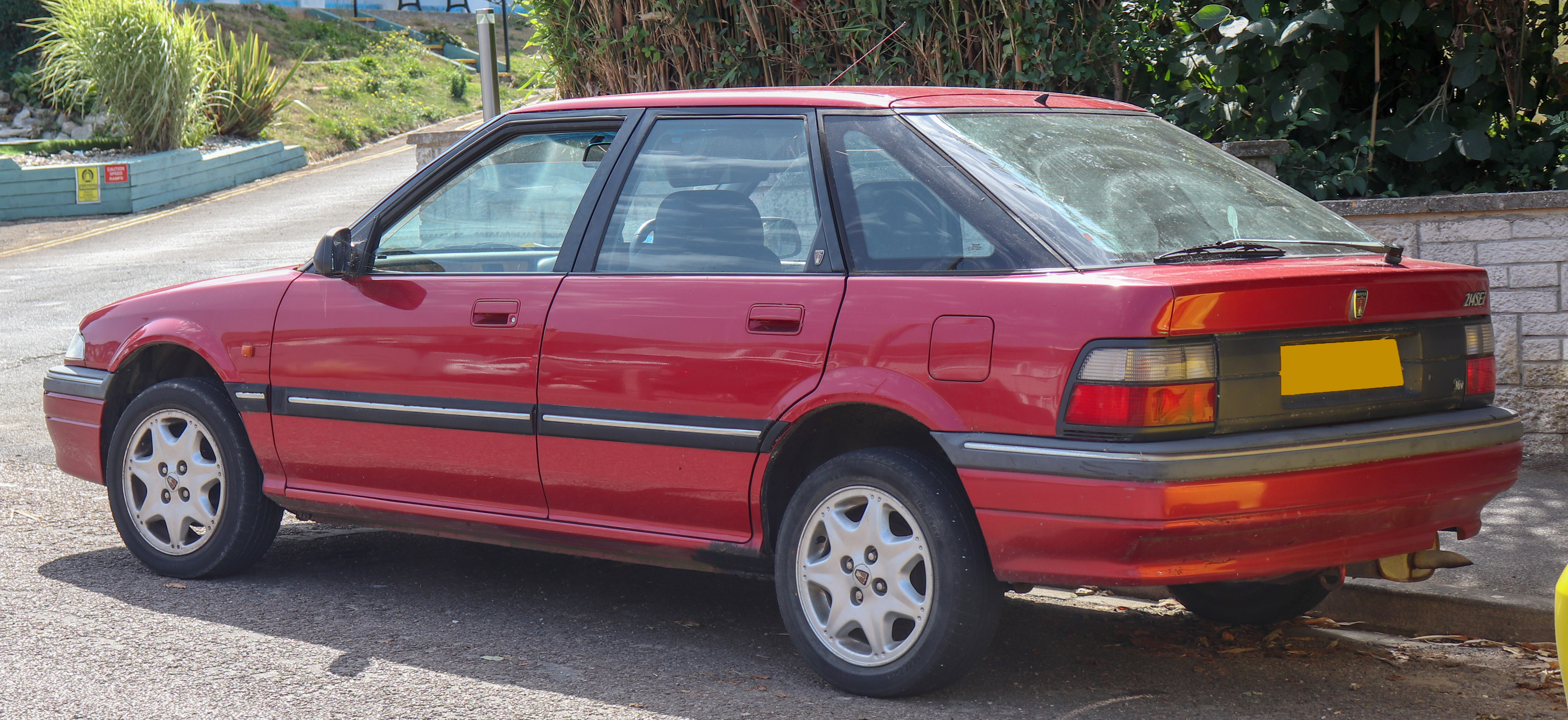 1995 Rover 214 SEi 1.4 Rear Taken in Weymouth, Dorset